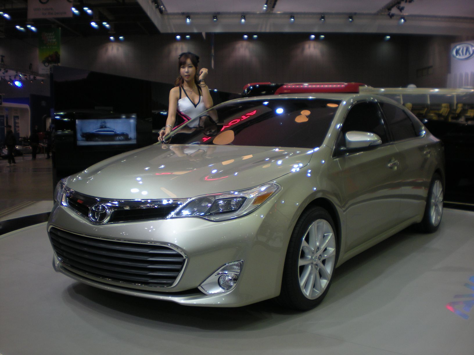 TOYOTA AVALON